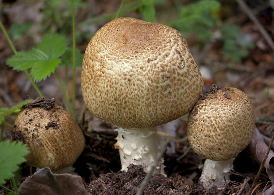 Agaricus augustus Fr. Location: Willamette National Forest, Lane Co., Oregon, USA Observation Notes: Growing under Doug Fir in the campground [admin – Sat Aug 14 02:07:55 0000 2010]: Changed location name from ‘Willamette National Forest, Lane County, Oregon, USA’ to ‘Willamette National Forest, Lane Co., Oregon, USA’ For more information about this, see the observation page at Mushroom Observer.